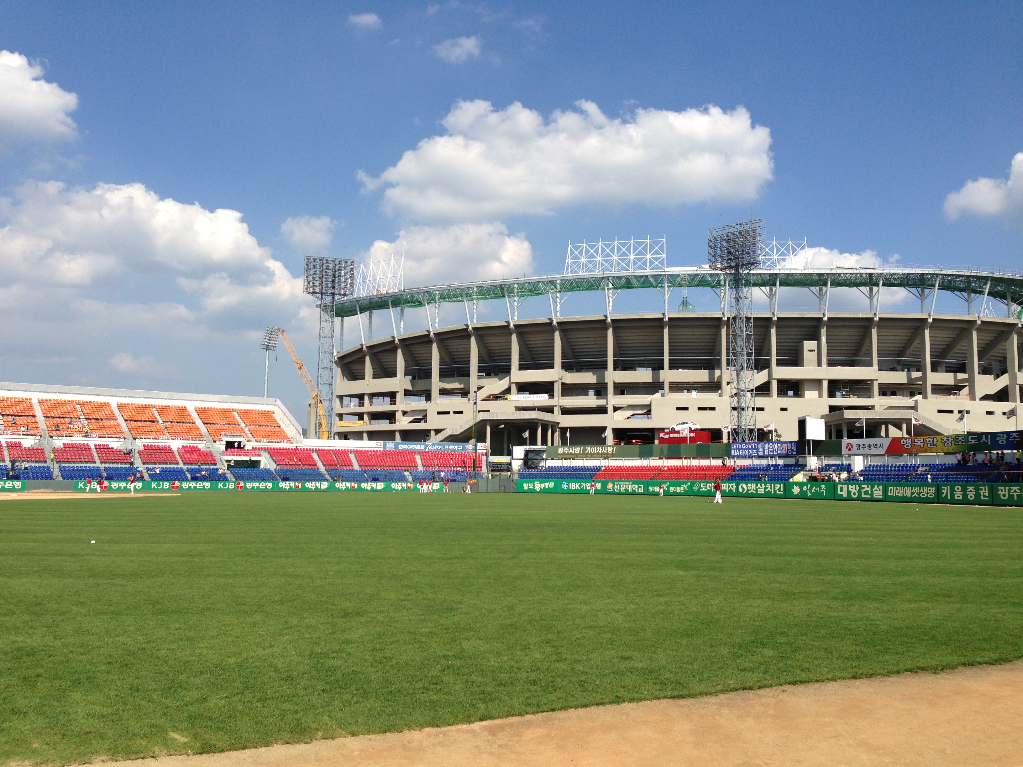 Gwangju Baseball Stadium